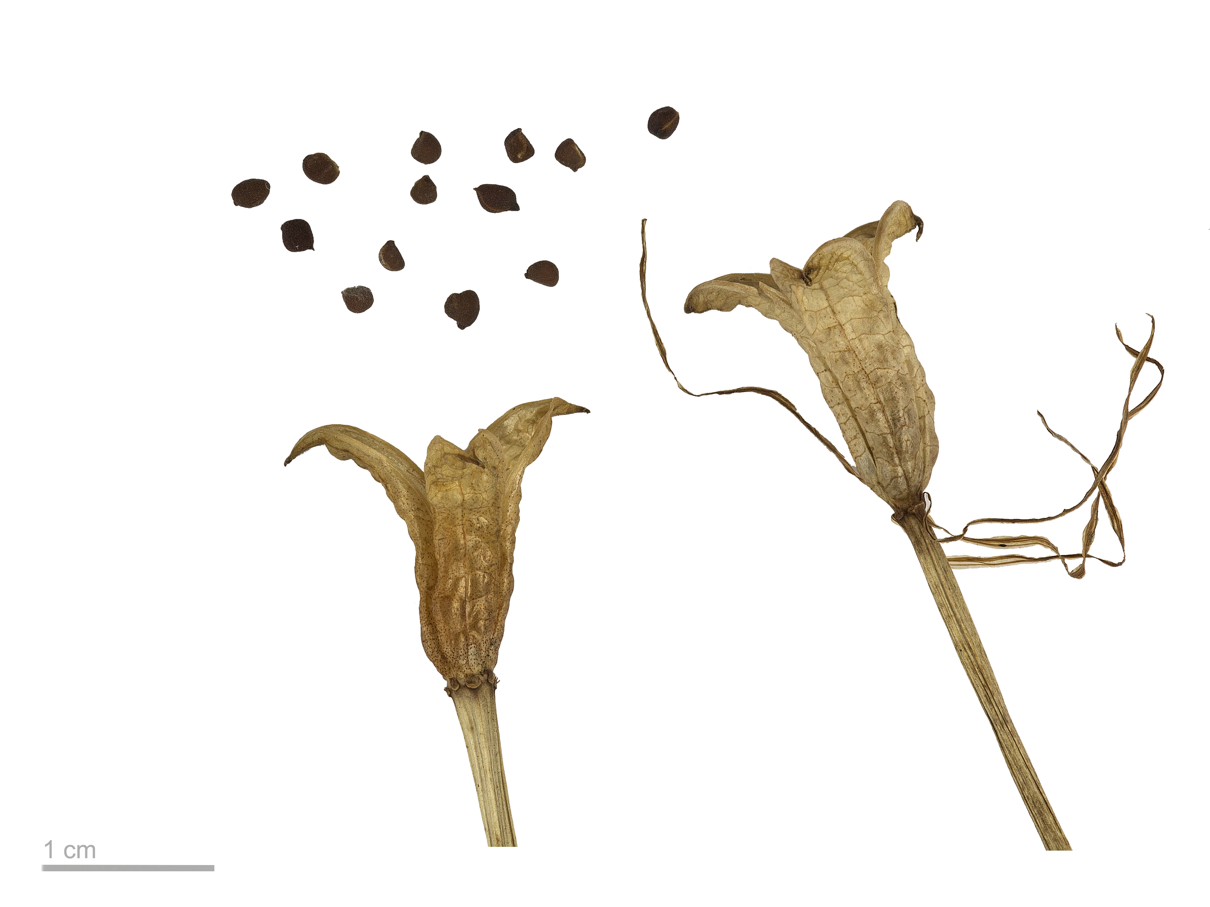 Colchicum montanum , fruits and seeds